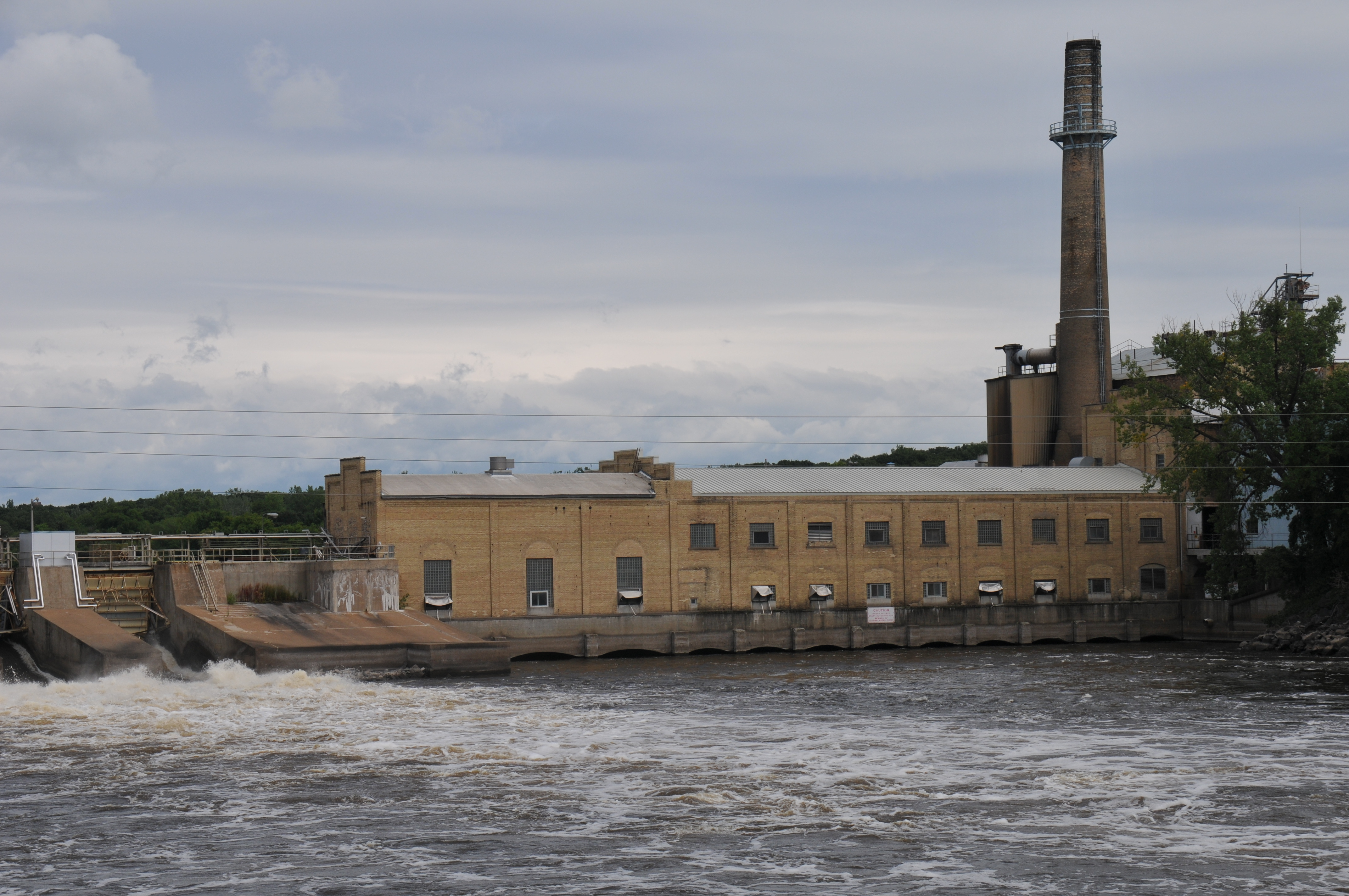 The Sartell Paper Mill in Sartell, Minnesota, then abandoned and awaiting demolition.